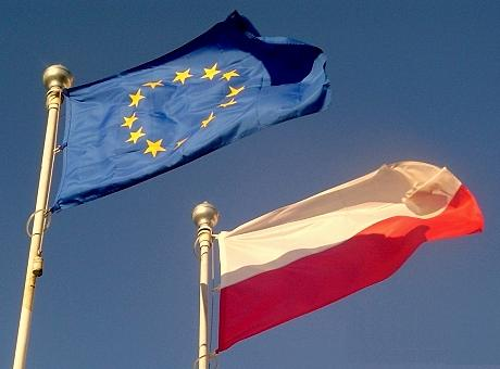 Flags of the European Union (upper left) and Poland (lower right)